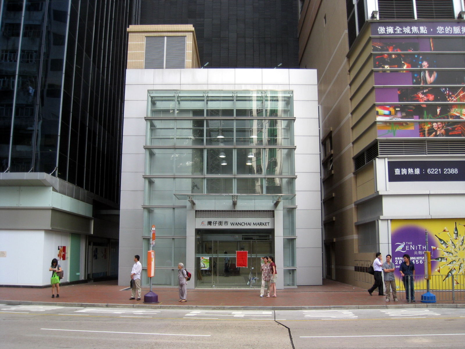 New Wan Chai Market Outside View 新灣仔街市